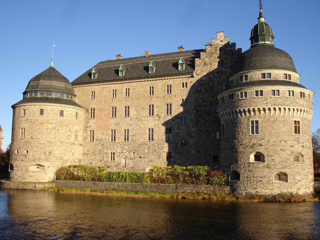 Örebro castle in Sweden. Örebro is a city between Stockholm and Göteborg with a population of about 100,000